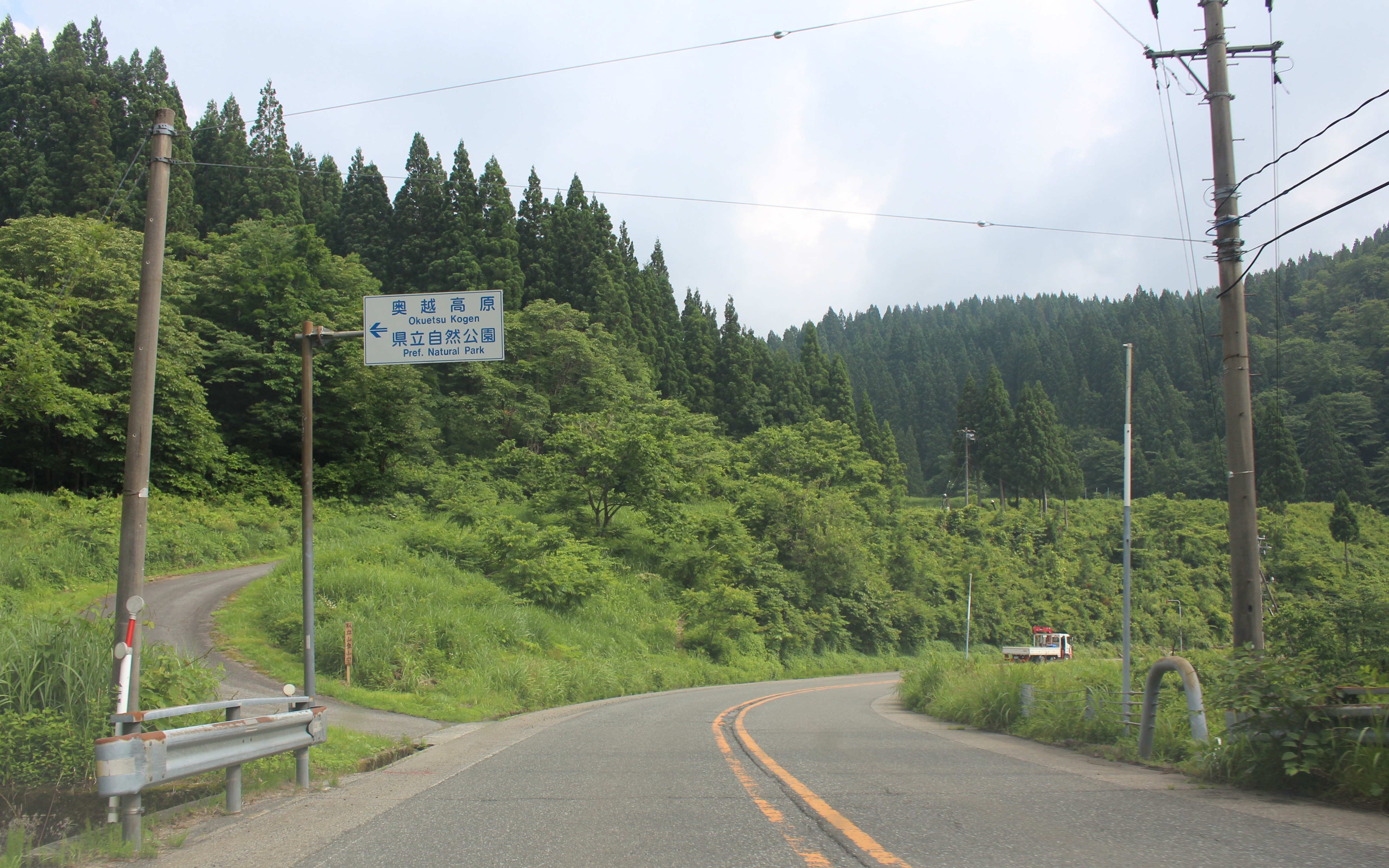 Route 157 in Tani, Kitadanicho, Katsuyama, Fukui prefecture, Japan.